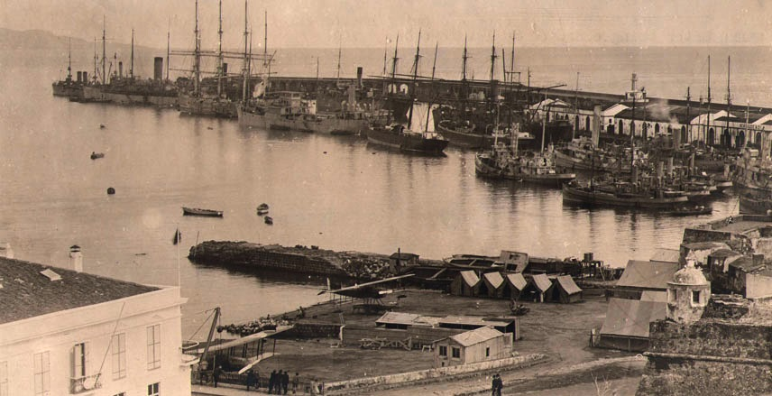 The 1st Aeronautical Company arrived at Ponta Delgada, Azores, on 21 January 1918 for anti-submarine duty. The unit was one of the first completely equipped American aviation units to serve overseas in World War I. The image shows the harbor and flying beach after it was occupied by the unit.